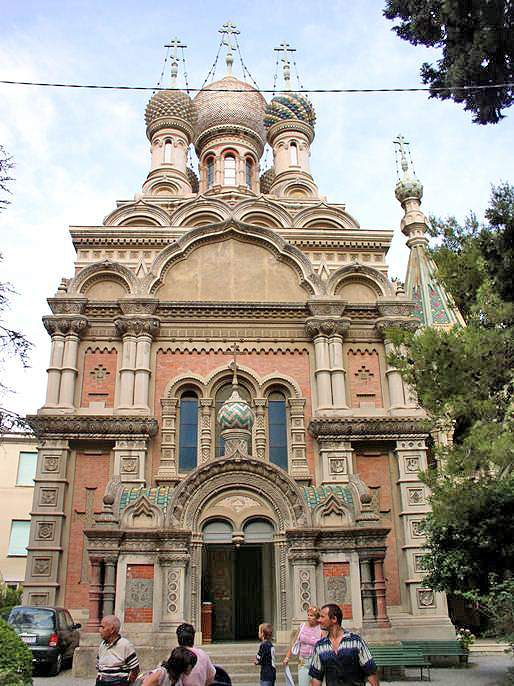 Russian Orthodox Church of Christ the Redeemer in Sanremo, Italy